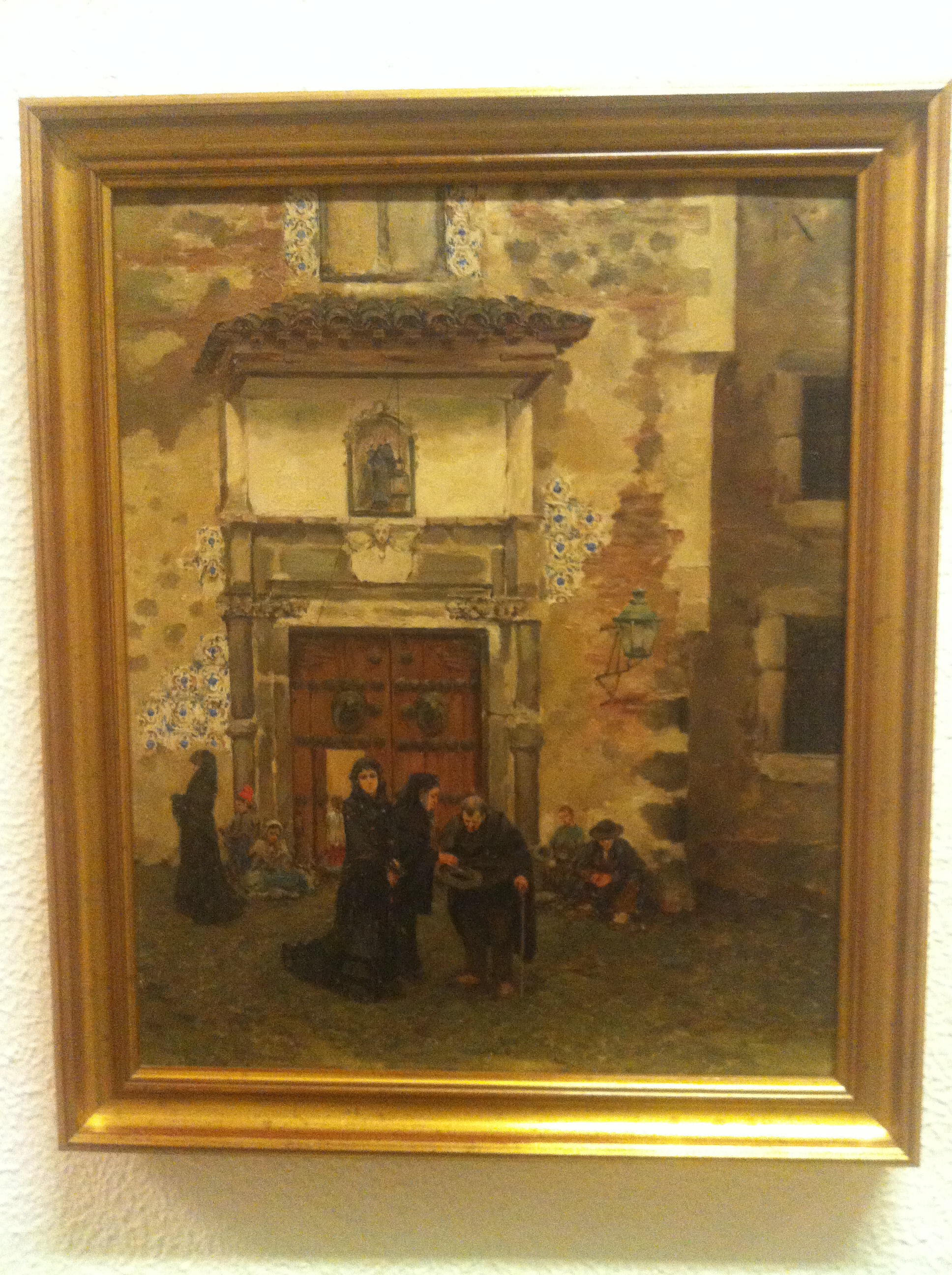 Paintings exhibited at La Mirada persistent exhibit in Figueres